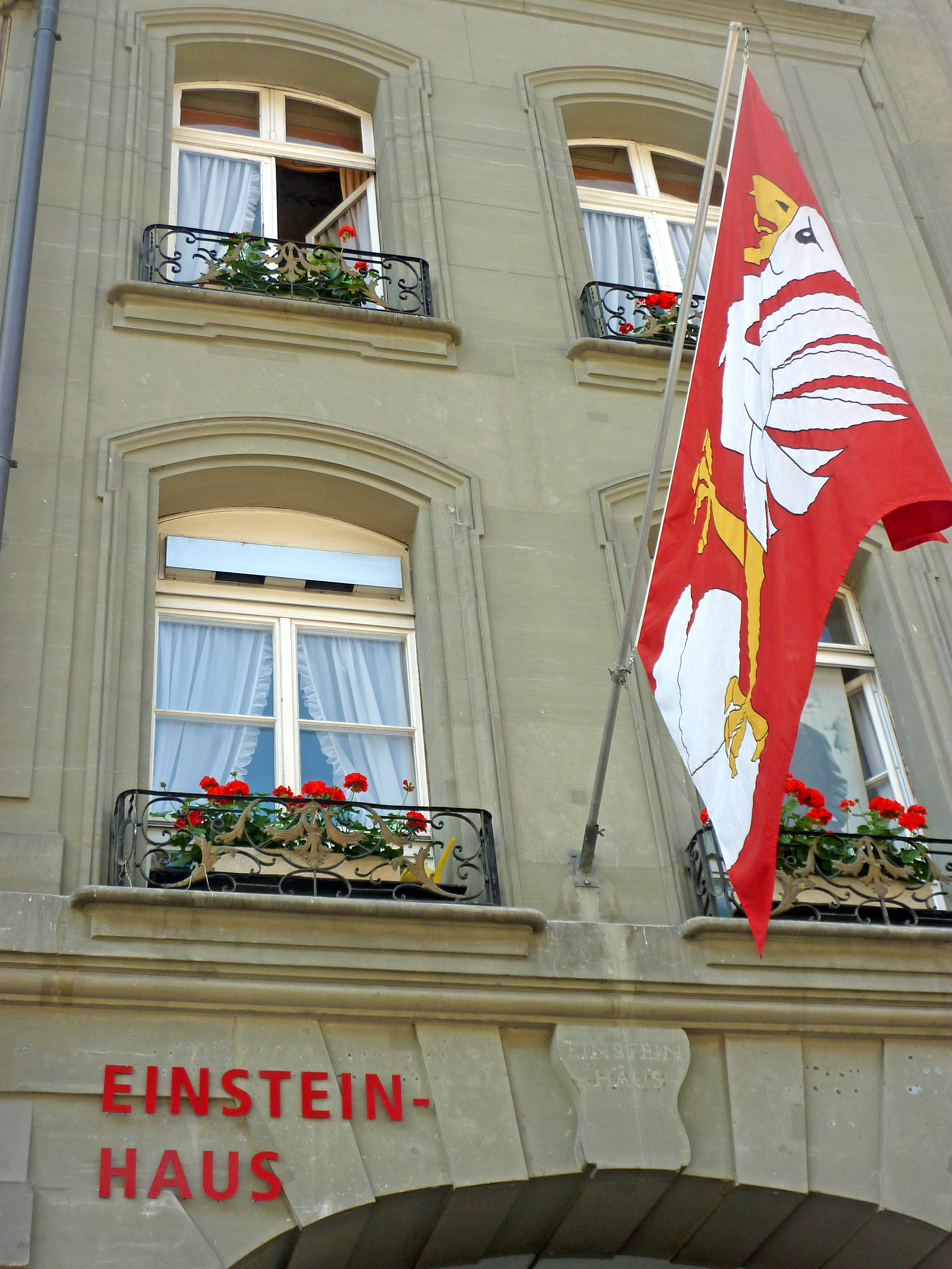 PLEASE, NO invitations or self promotions, THEY WILL BE DELETED. My photos are FREE to use, just give me credit and it would be nice if you let me know, thanks. The Einstein House is located just some 200 meters (656 ft) from the Clock Tower (Zytglogge). Albert Einstein rented the flat from 1903 to 1905 and lived there with his wife Mileva and son Hans Albert. The second-floor residence features furnishings from that time period as well as photos and texts presented in a modern exhibition system.